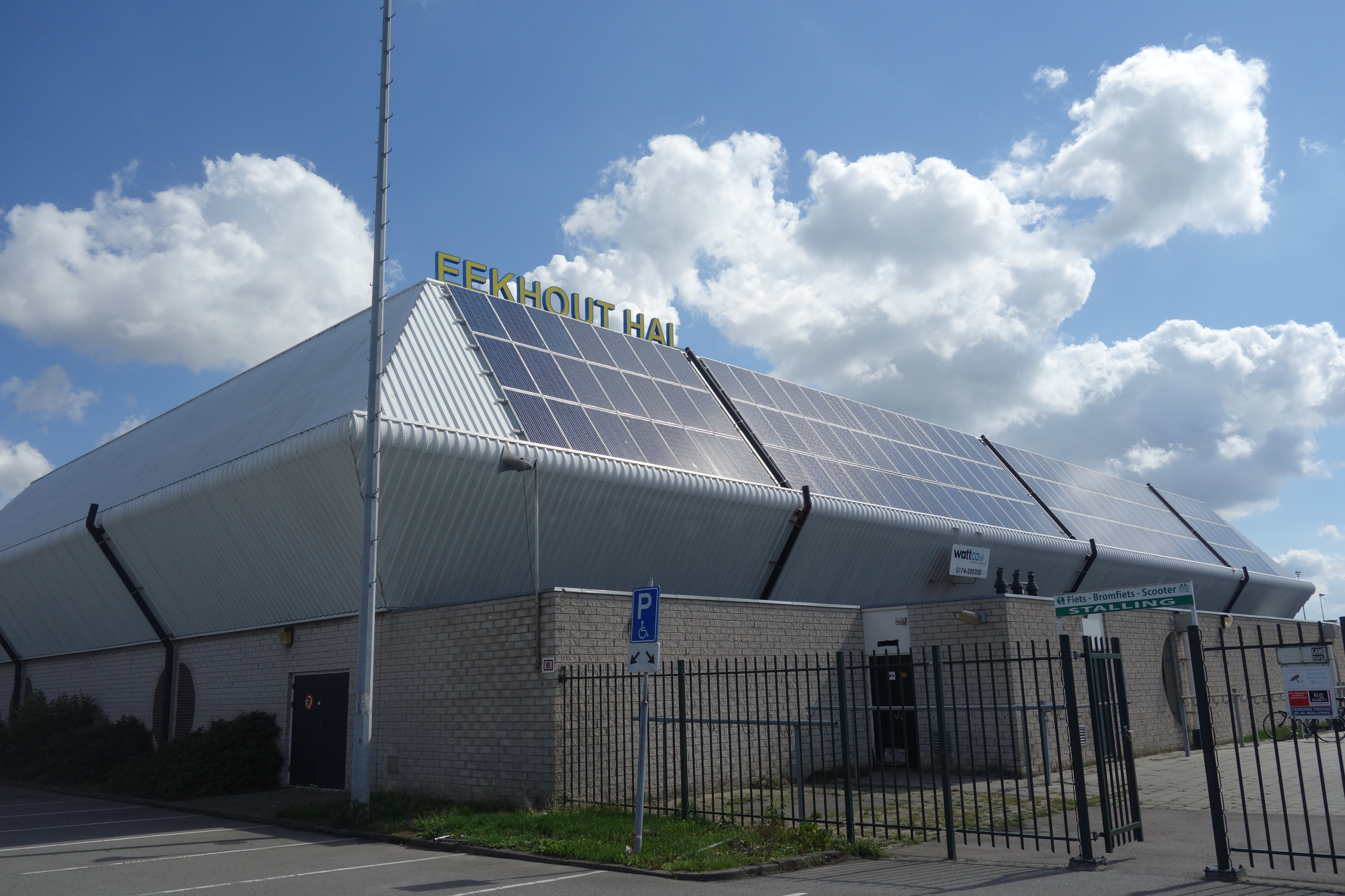 Sports hall Quintus (Kwintsheul, Westland, the Netherlands) 2018 (Eekhouthal)